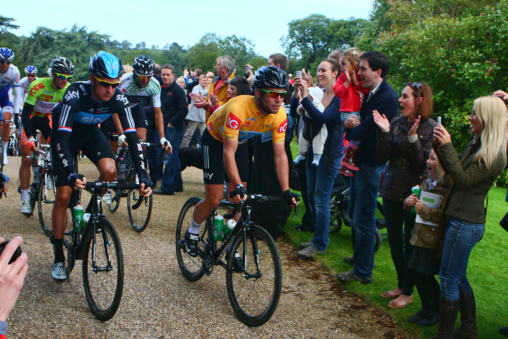 Bradley Wiggins and Mark Cavendish lead-off the field through the corridor of fans at the start of today's stage of the Tour of Britain cycle race at Trentham Gardens, Stoke-on-Trent